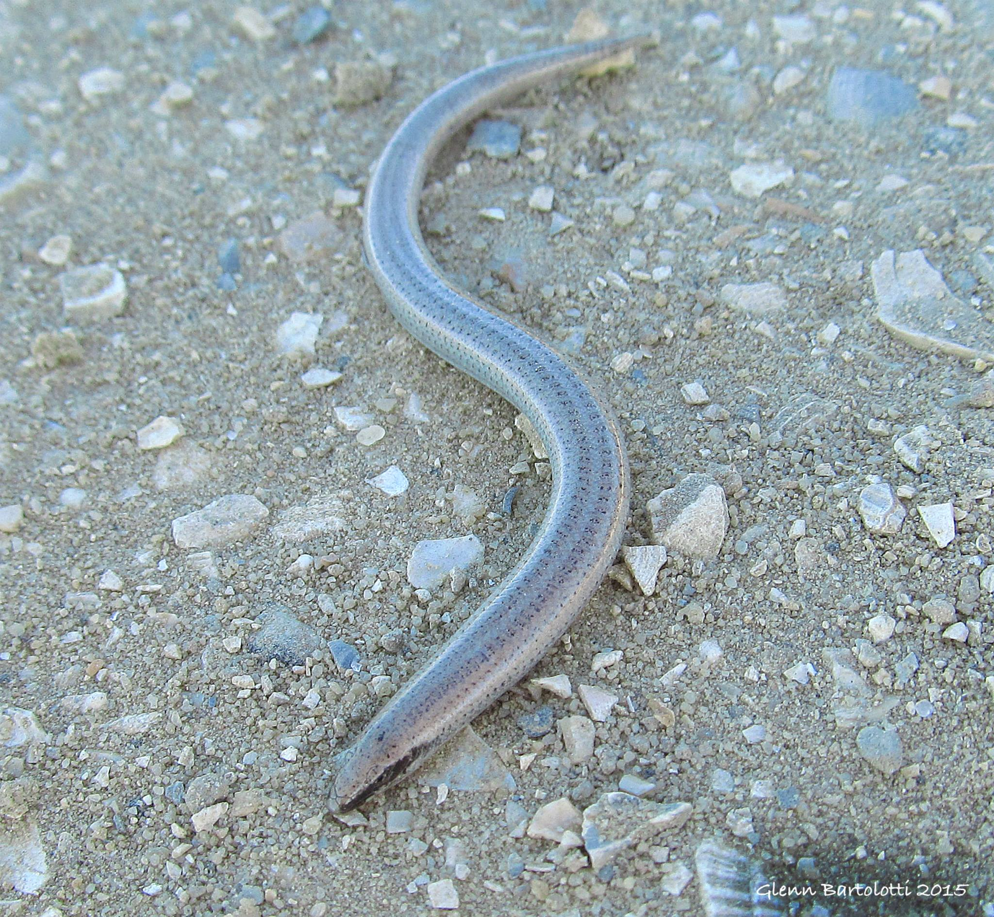 Neoseps reynoldsi (widely accepted as Plestiodon reynoldsi) Highlands Florida